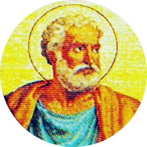 Portrait of Saint pope Peter in the Basilica of Saint Paul outside the Walls